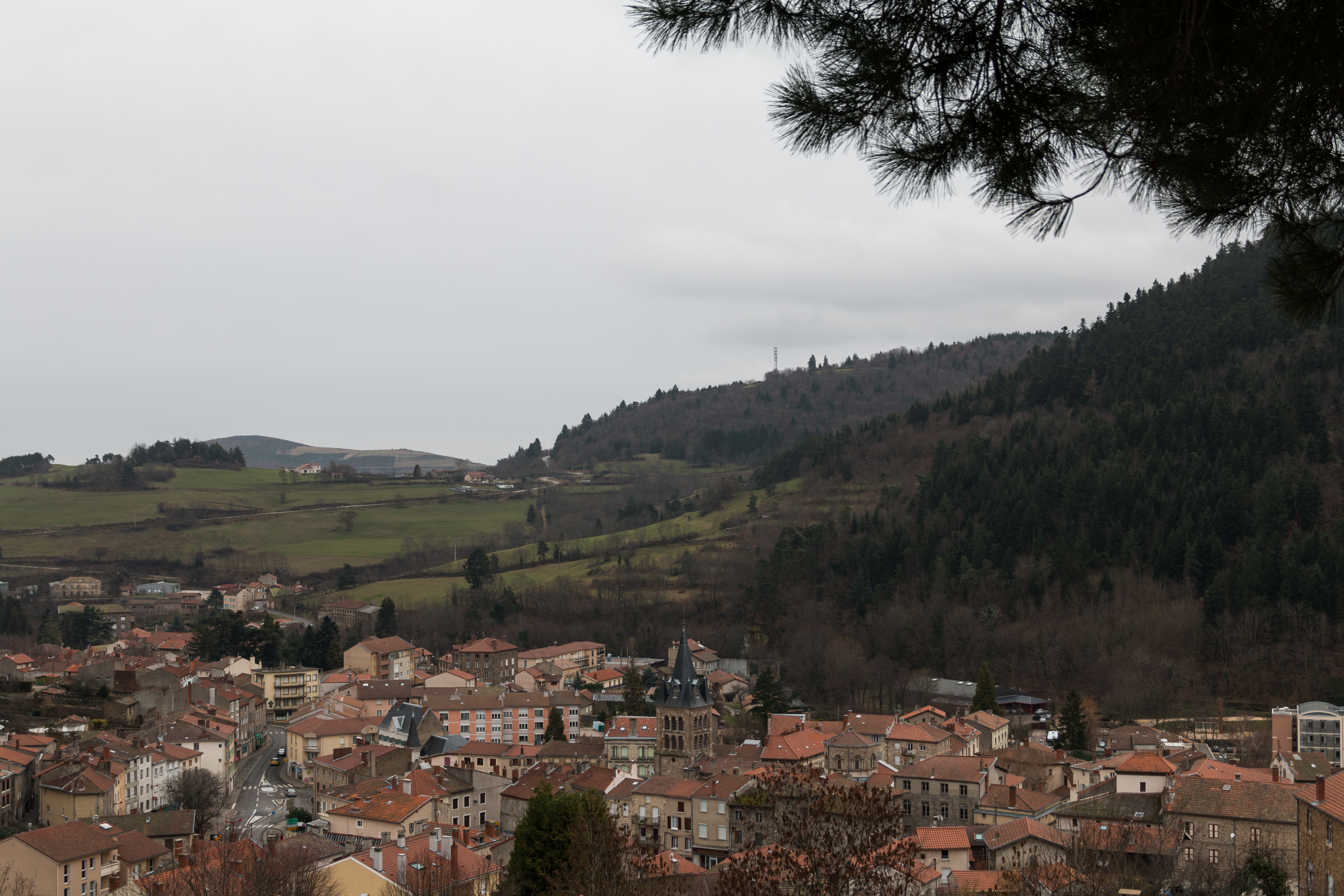 Bourg-Argental seen from the Rise St. Francis Regis.